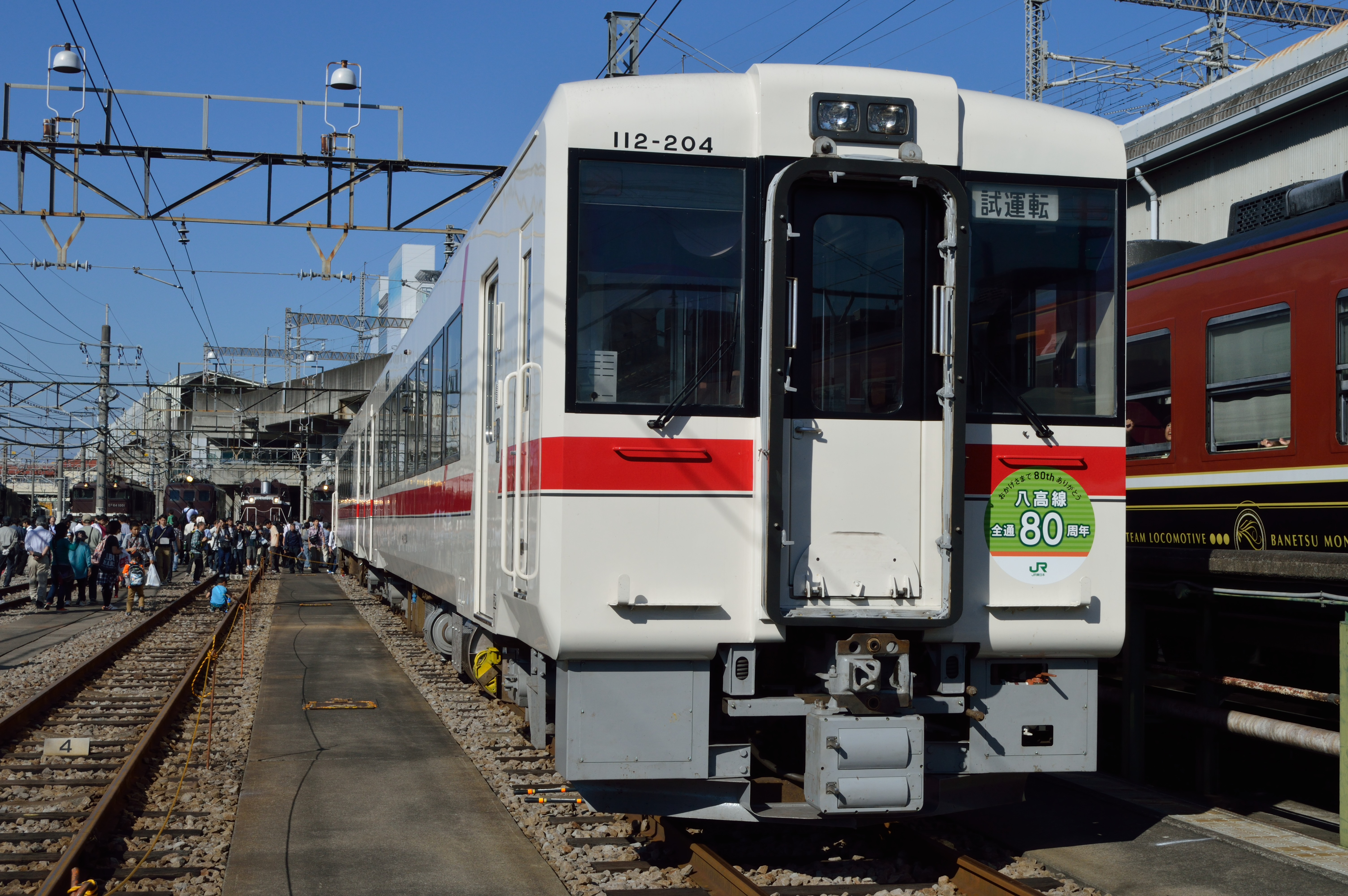 JR East KiHa 110 series DMU cars KiHa 111-204 + KiHa 112-204 in special Hachiko Line livery at an open day event at Takasaki DepotNikon D3200